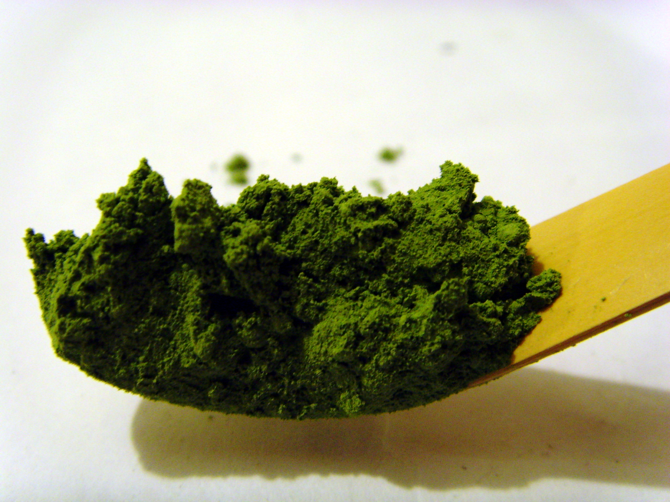 low grade matcha close up